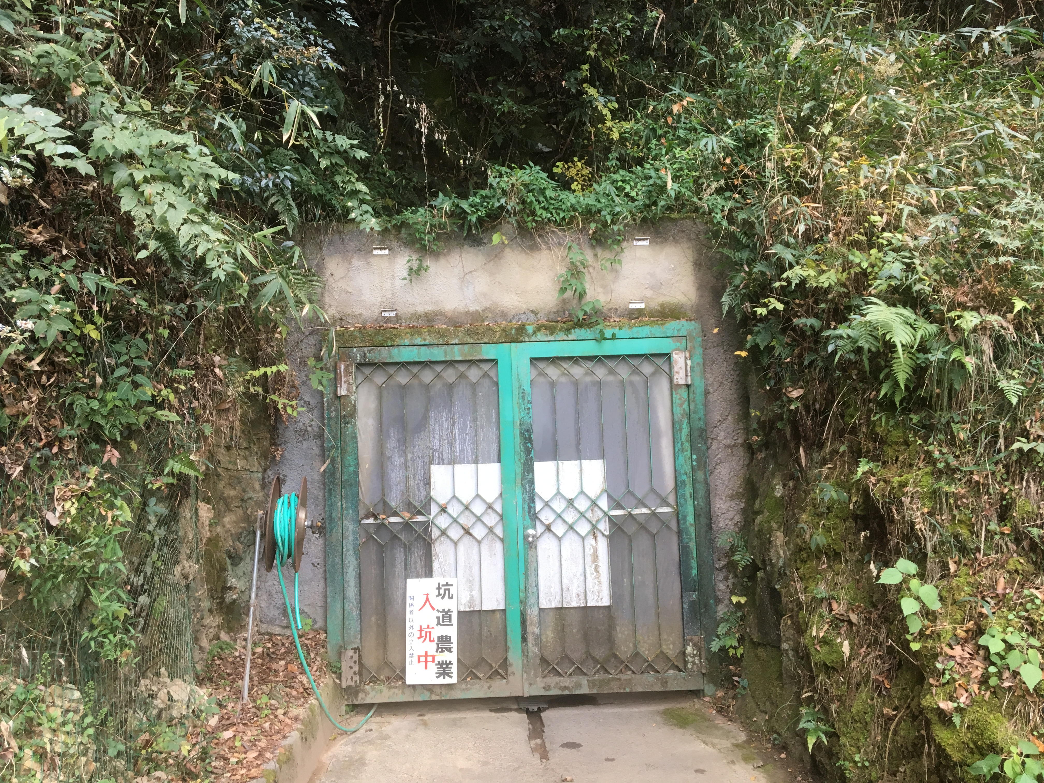 yanahara-mine (FeS) Gate 12-2016 Okayama-pref JAPAN